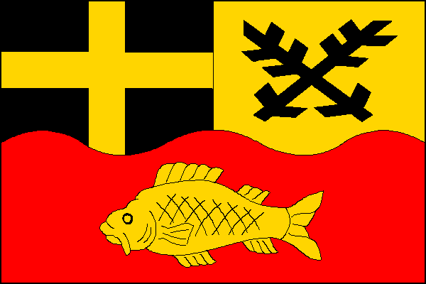 Municipal flag of Křižanovice village, Chrudim District, Czech Republic.